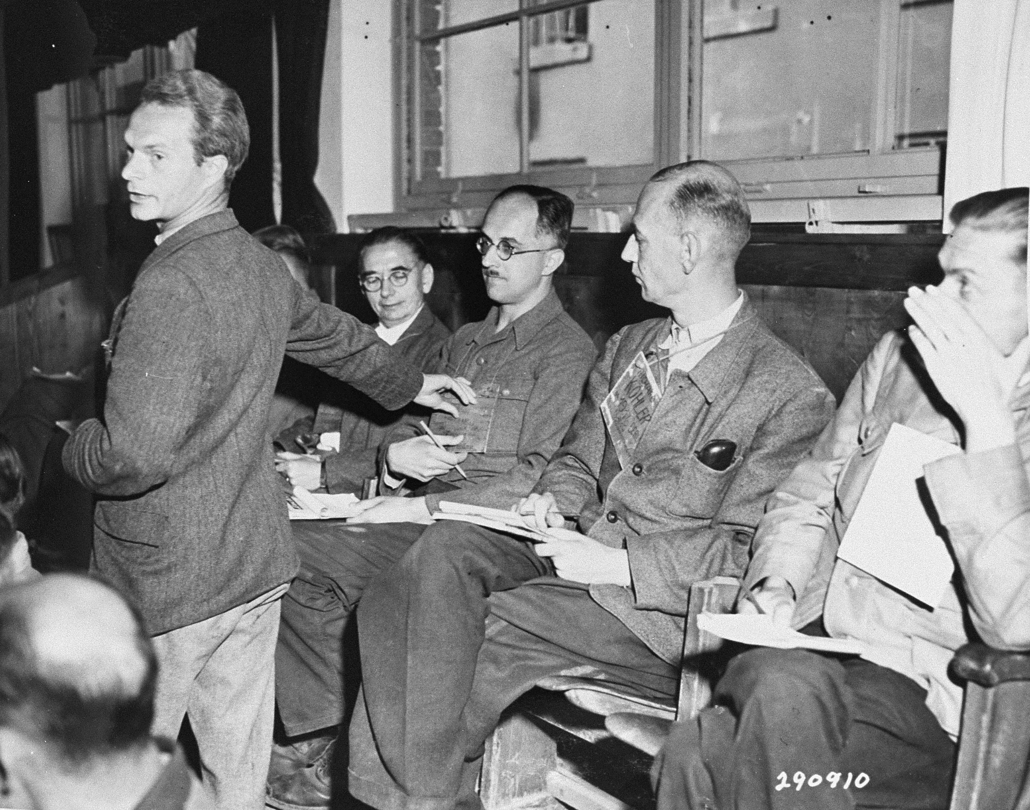 Vans Maienschein, a prosecution witness, points out former camp doctor Heinrich Schmidt as the man who let patients die because of lack of medical care, at the trial of former camp personnel and prisoners from Dora-Mittelbau. Locale: Dachau, [Bavaria] Germany